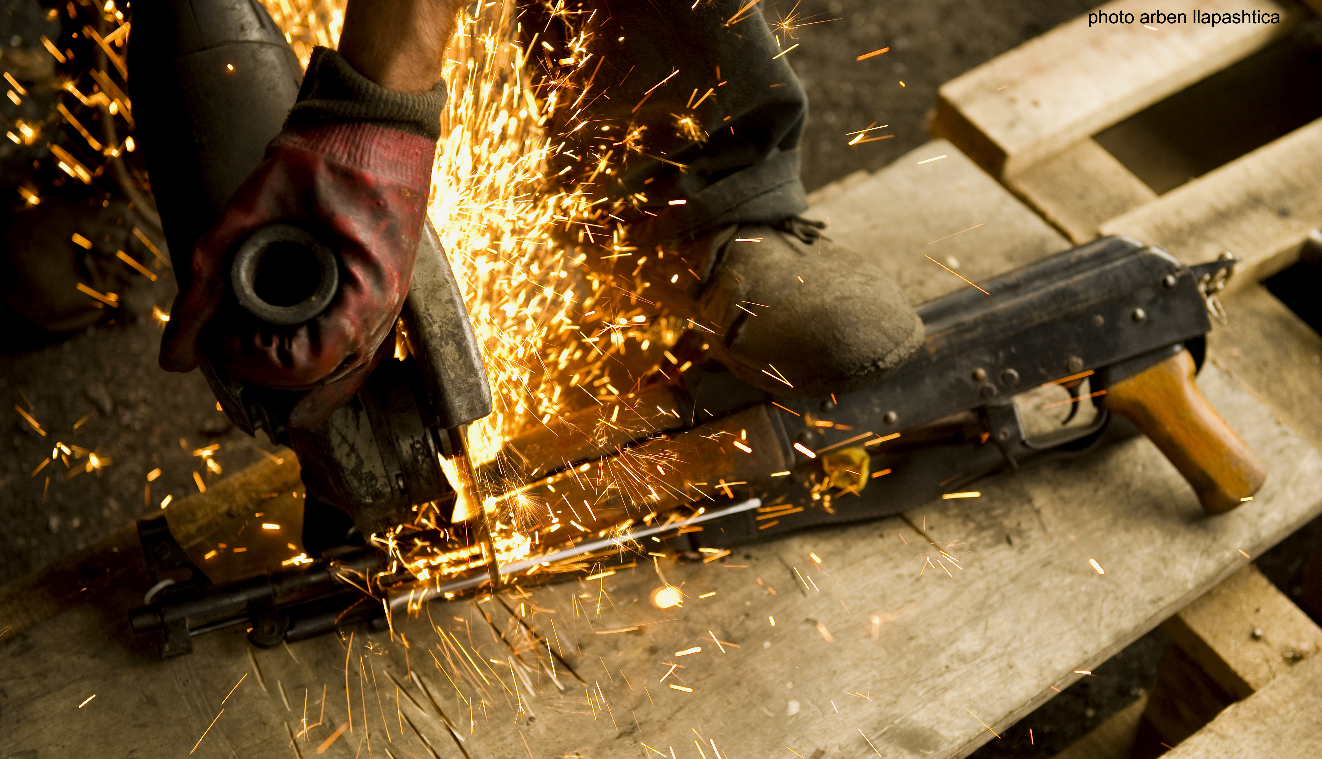 kallashnikov